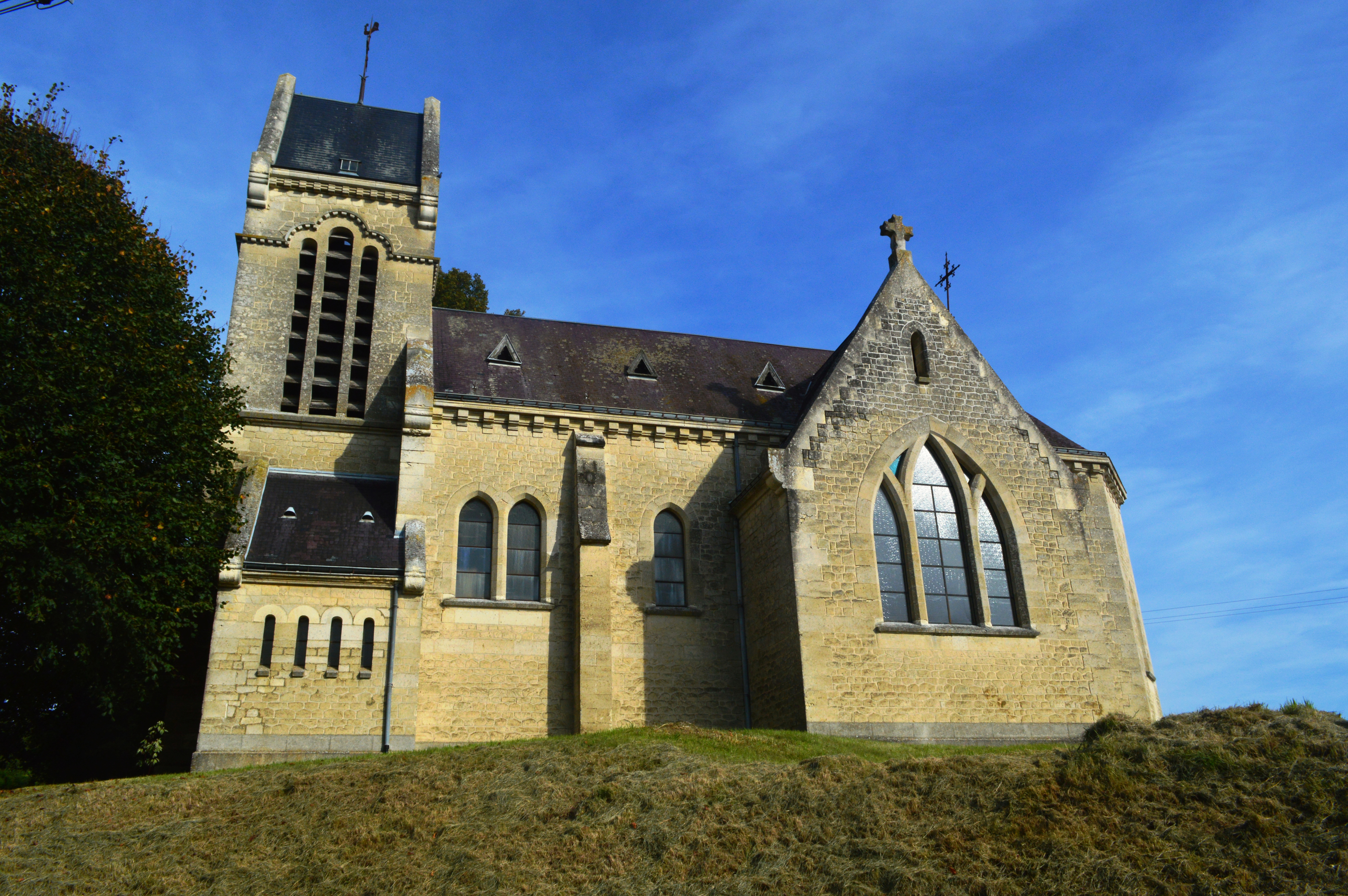 Bassoles-Aulers Church St.Peter - St. Paul